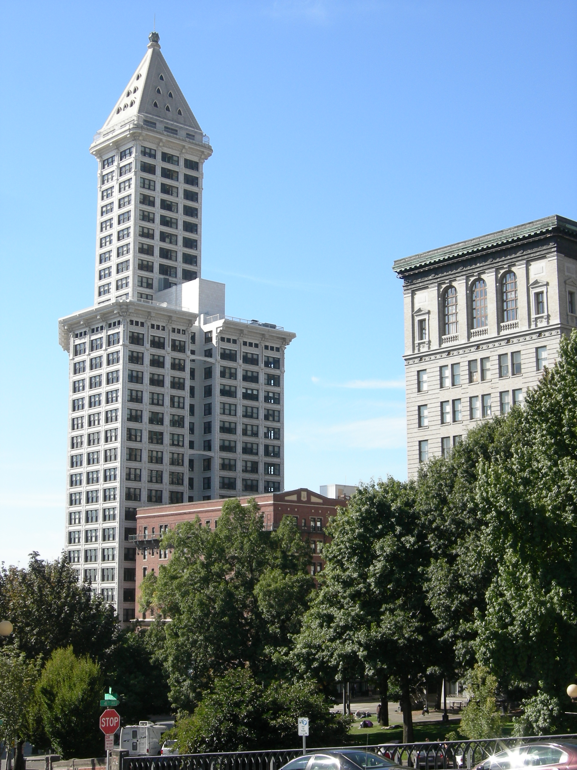 Smith Tower, Pioneer Square, Seattle, Washington, USA. Below that can be seen a bit of the Morrison Hotel; at right are City Hall Park and the King County Court House.